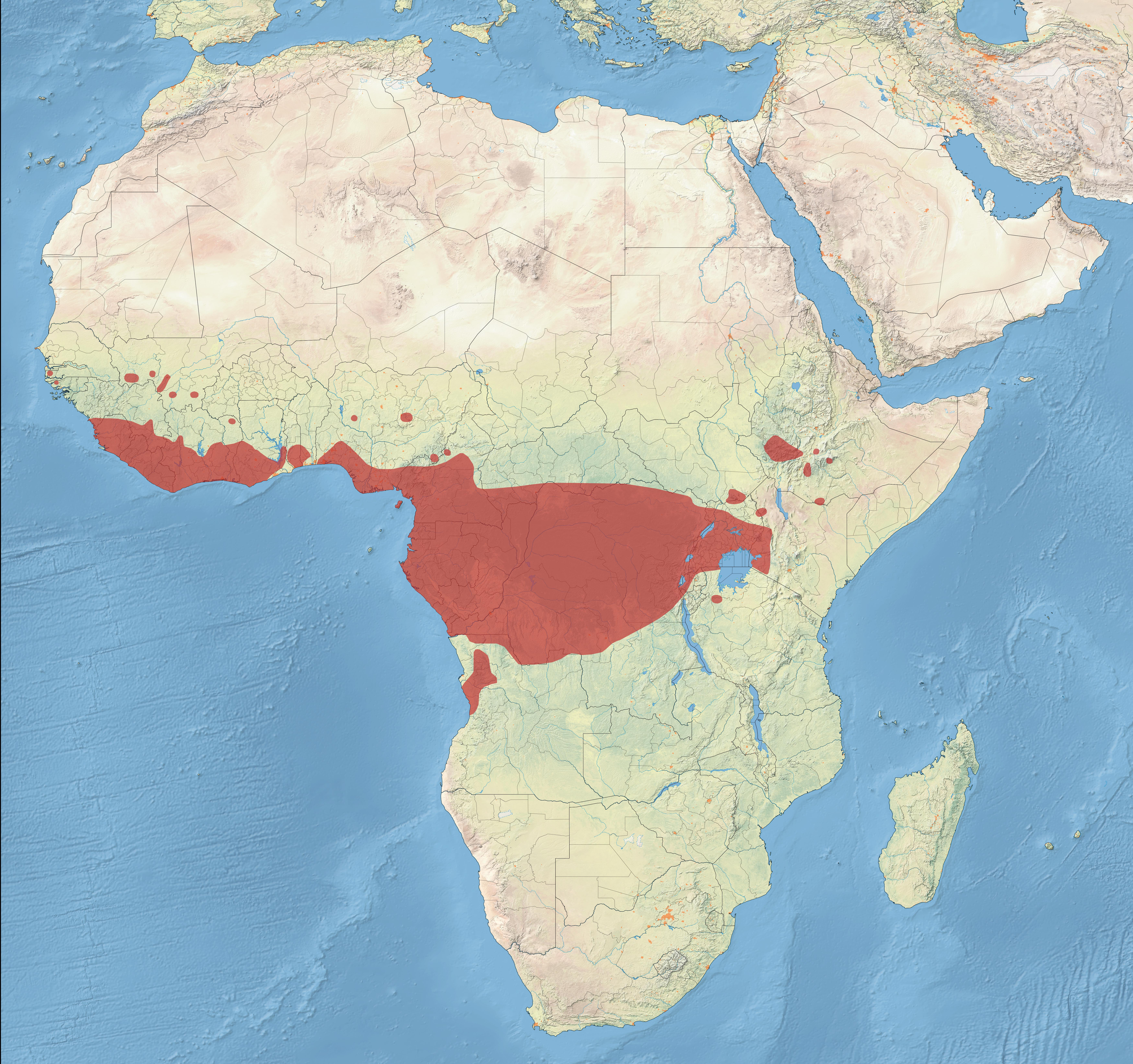 The IUCN Distribution of Black-and-white Mannikin Maroon = Resident Purple = Breeding Orange = Non-breeding Hatched = Passage Grey = Possibly Extinct Blue = Introduced